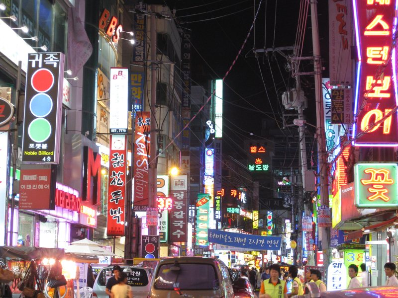 A back lane of Shinbudong, the busiest night spot in Cheonan, South Korea.